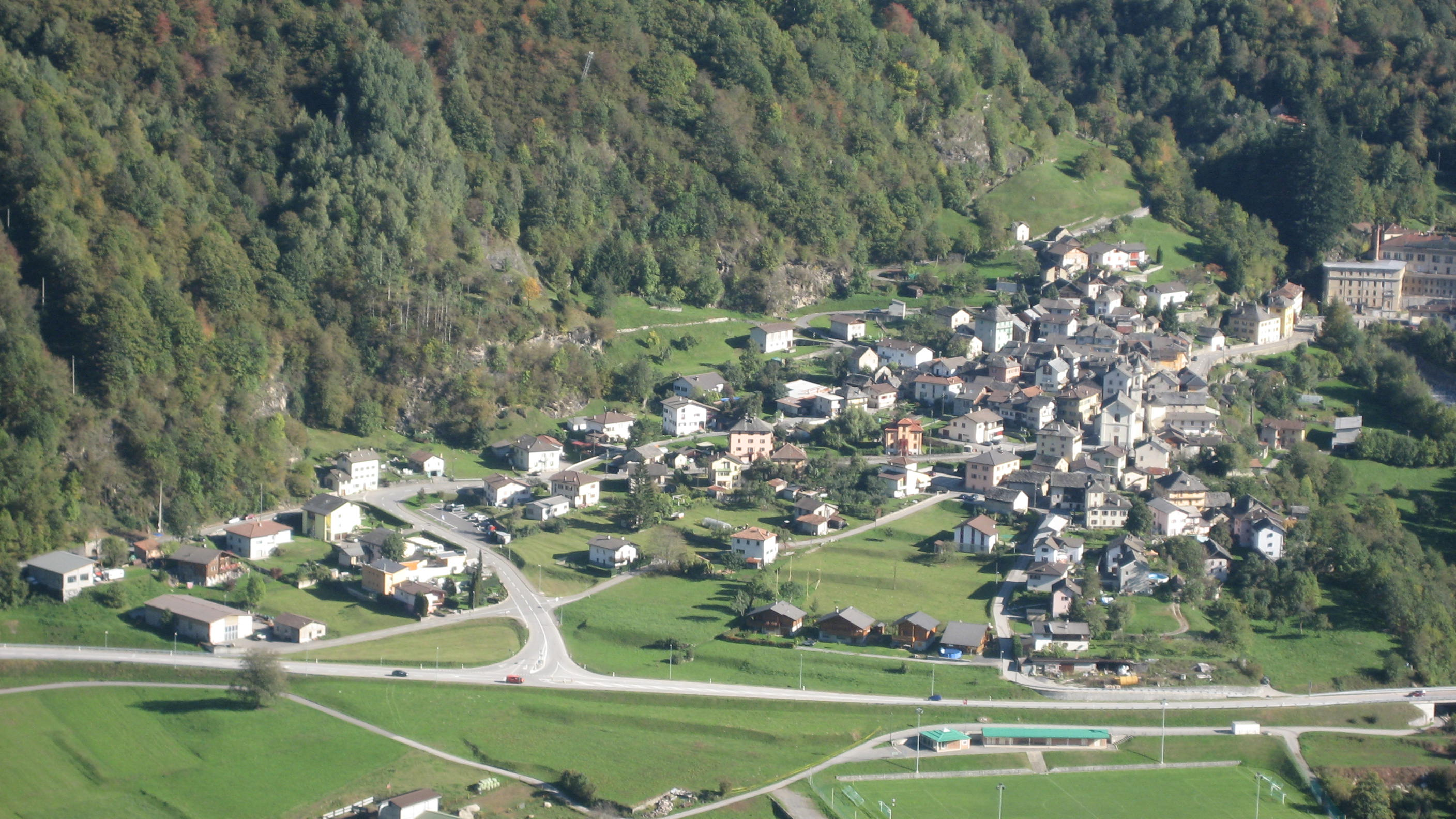 Dangio (Blenio, Ticino, Switzerland)